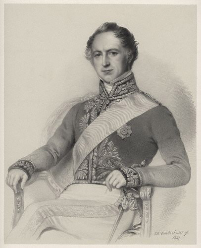 Portrait of English diplomat Sir Edward Cromwell Disbrowe, by Richard James Lane, lithographer. After a portrait by Jan Baptist van der Hulst. Courtesy of the National Portrait Gallery, London, England.